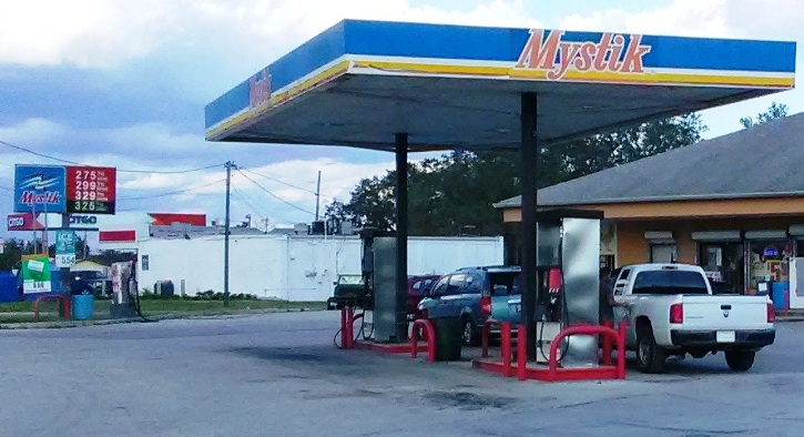 Mystik branded gas station, on US-17/92, in Davenport, Florida